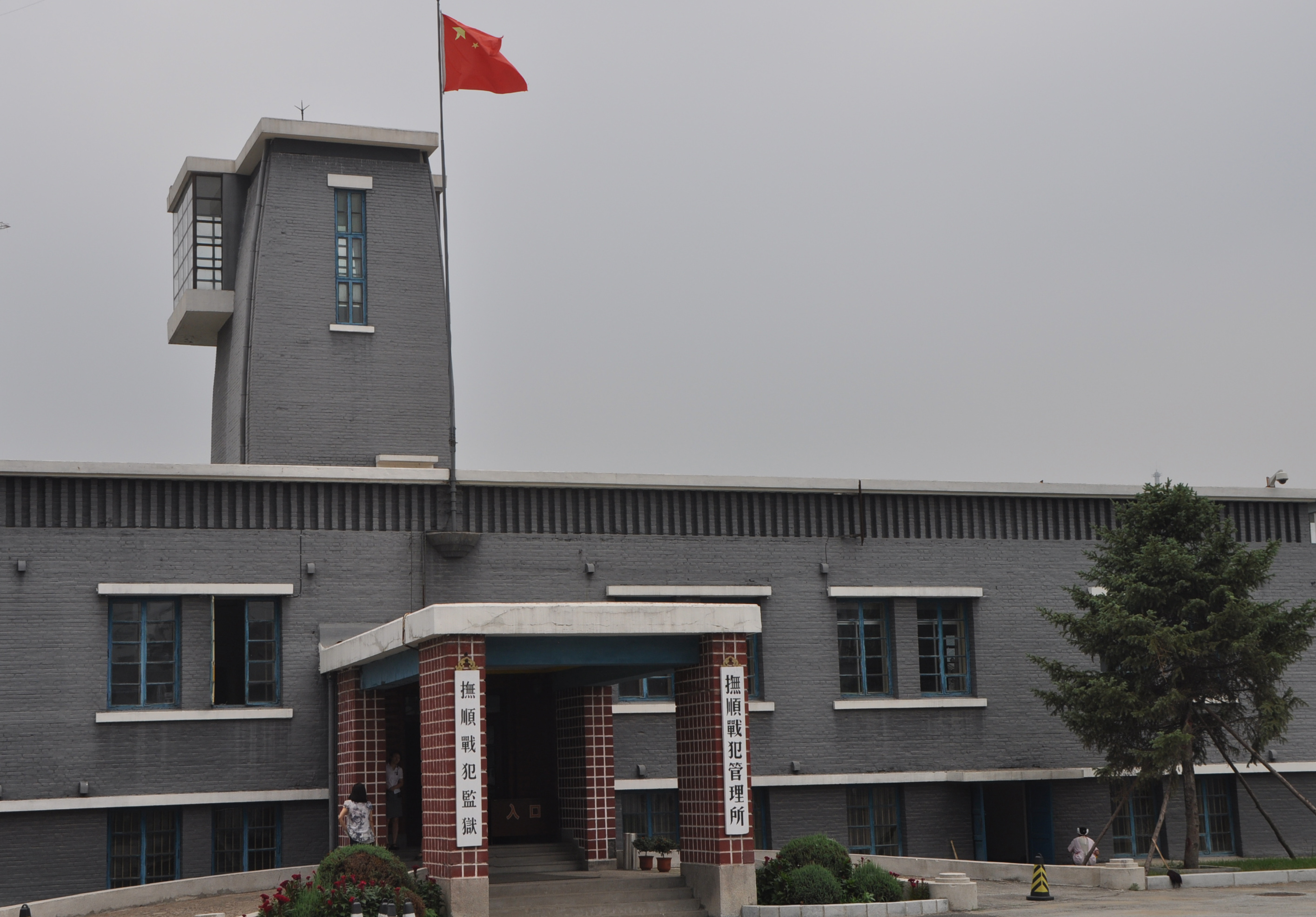 Fushun War Criminals Management Center 2 - Building Entrance